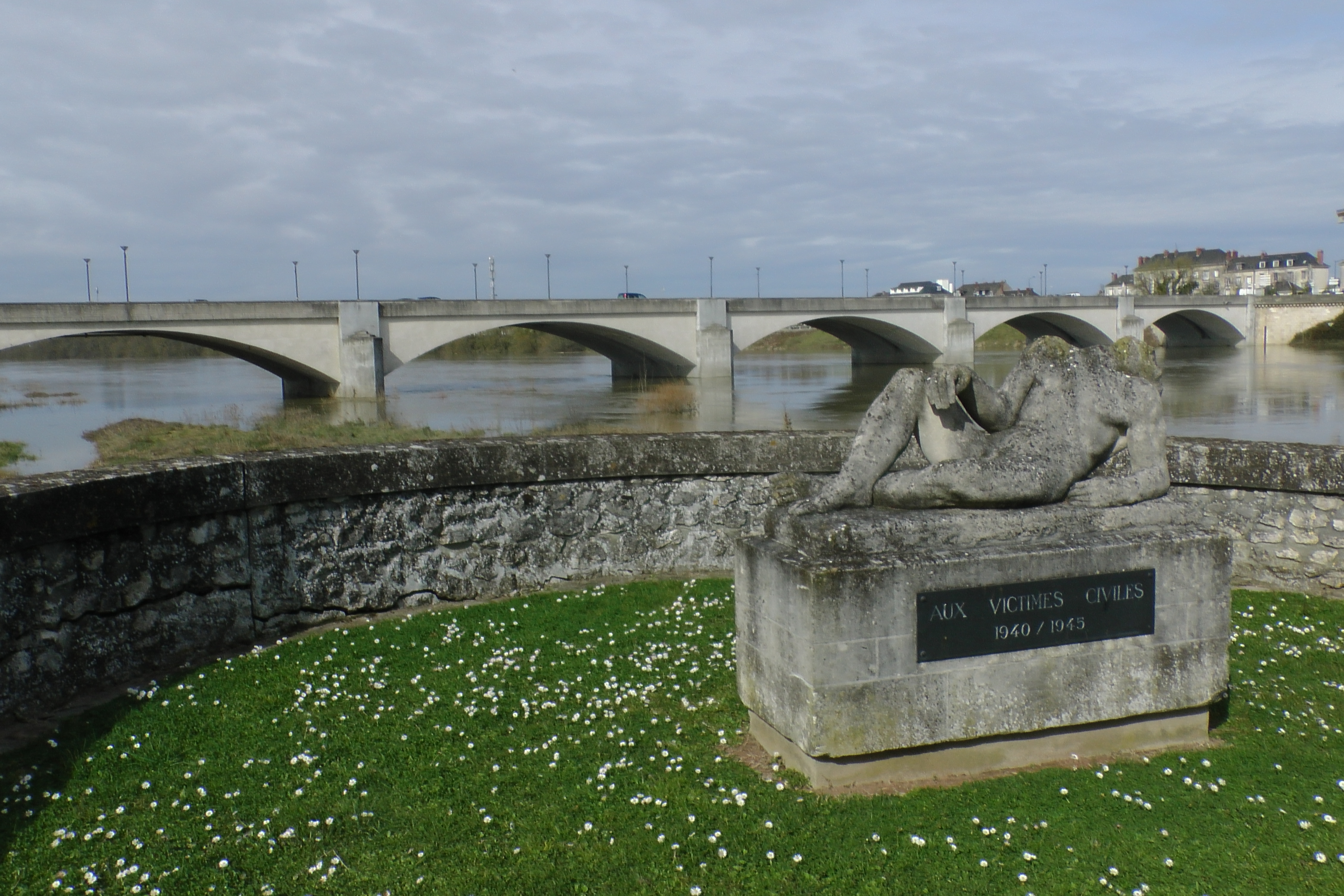 Pont des Cadets de Saumur